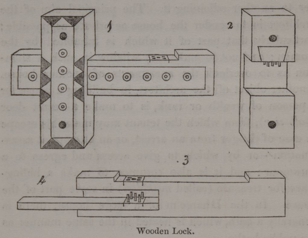 Diagram of a wooden lock. Engraving (prints).